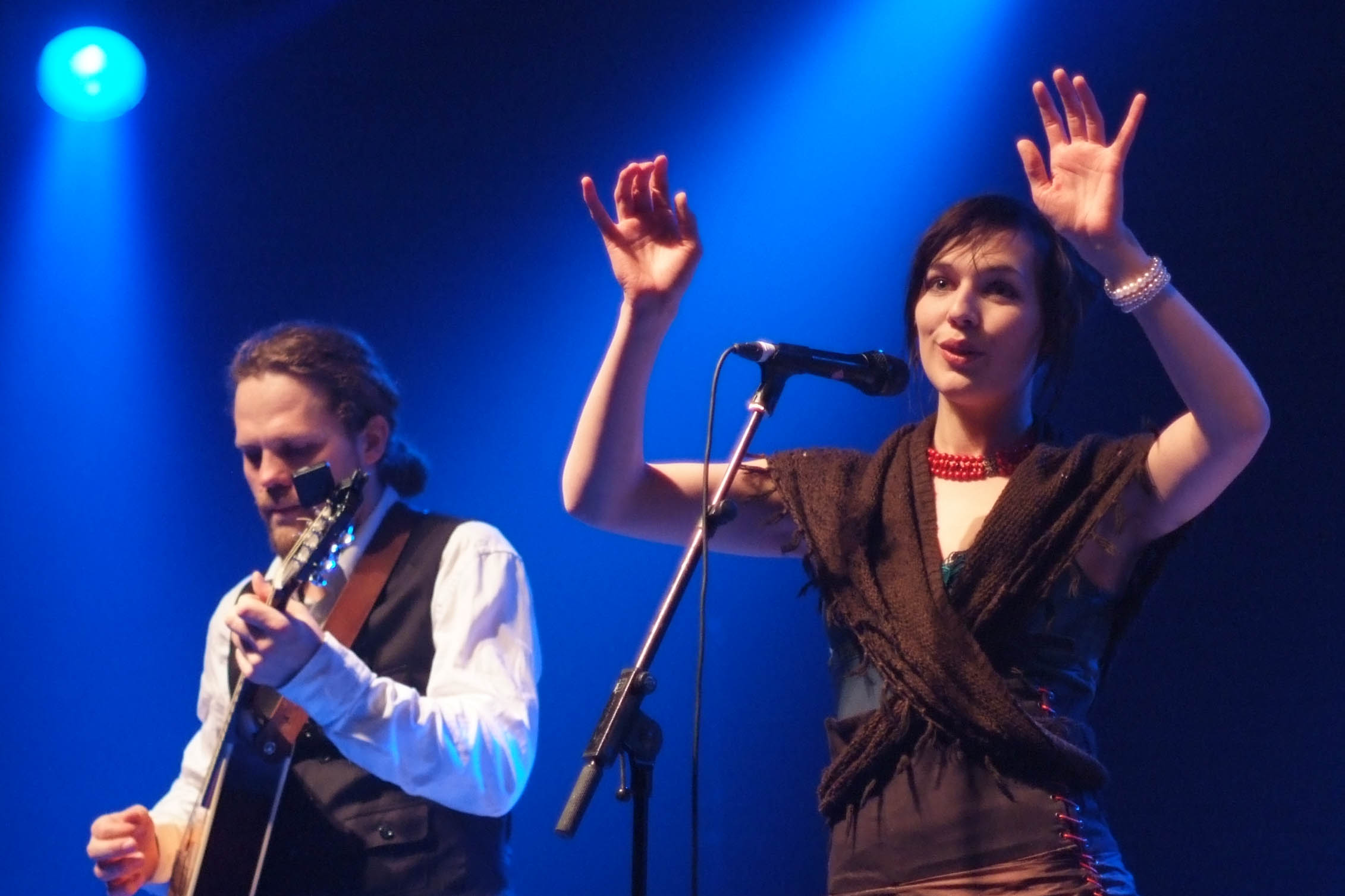 Danish/Faroese band "Valravn" at Danish Music Awards Folk 2008 in Tonder